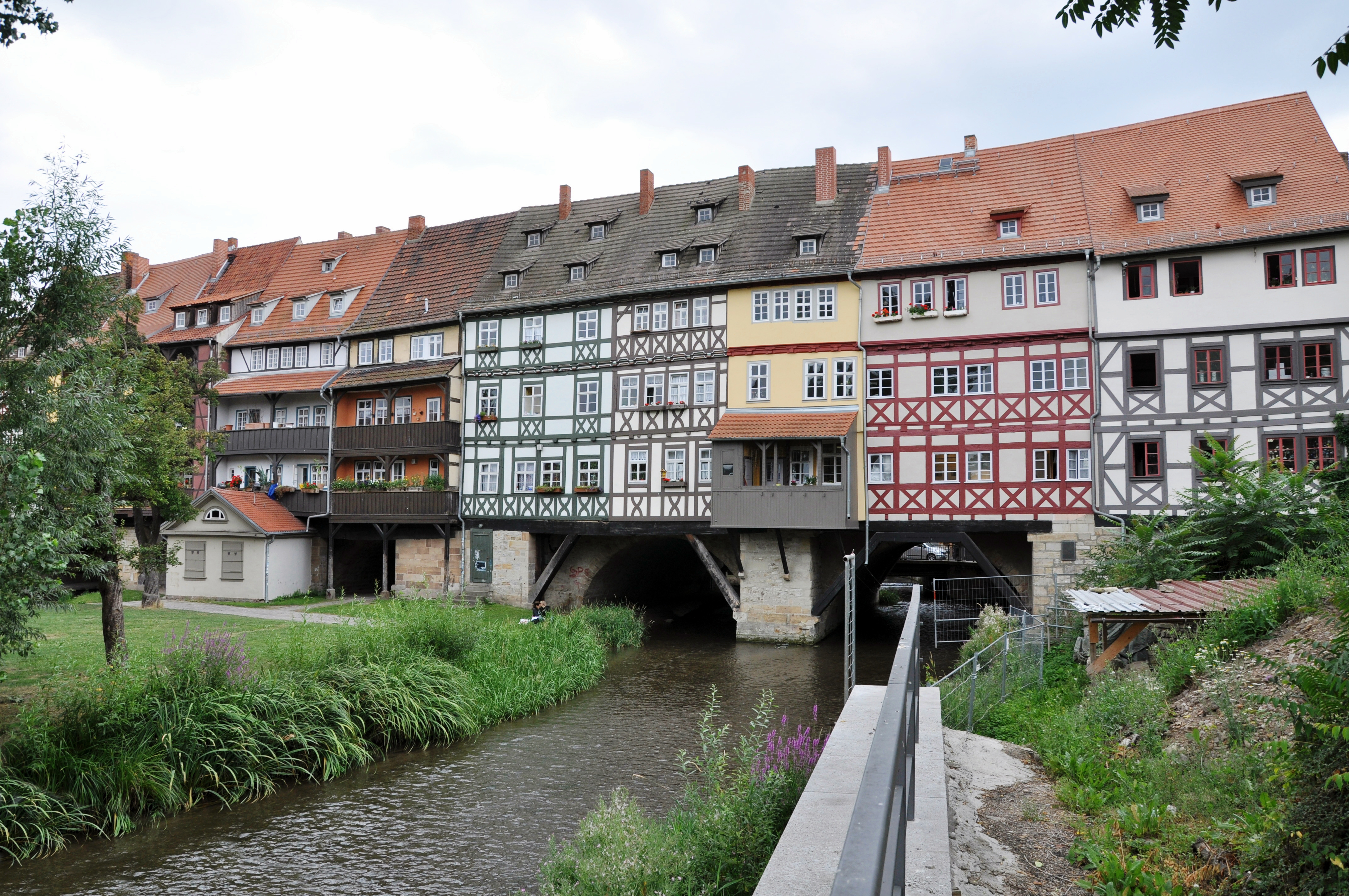 Timbered houses